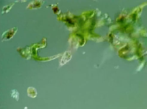 The extremophilies of Berkeley Pit